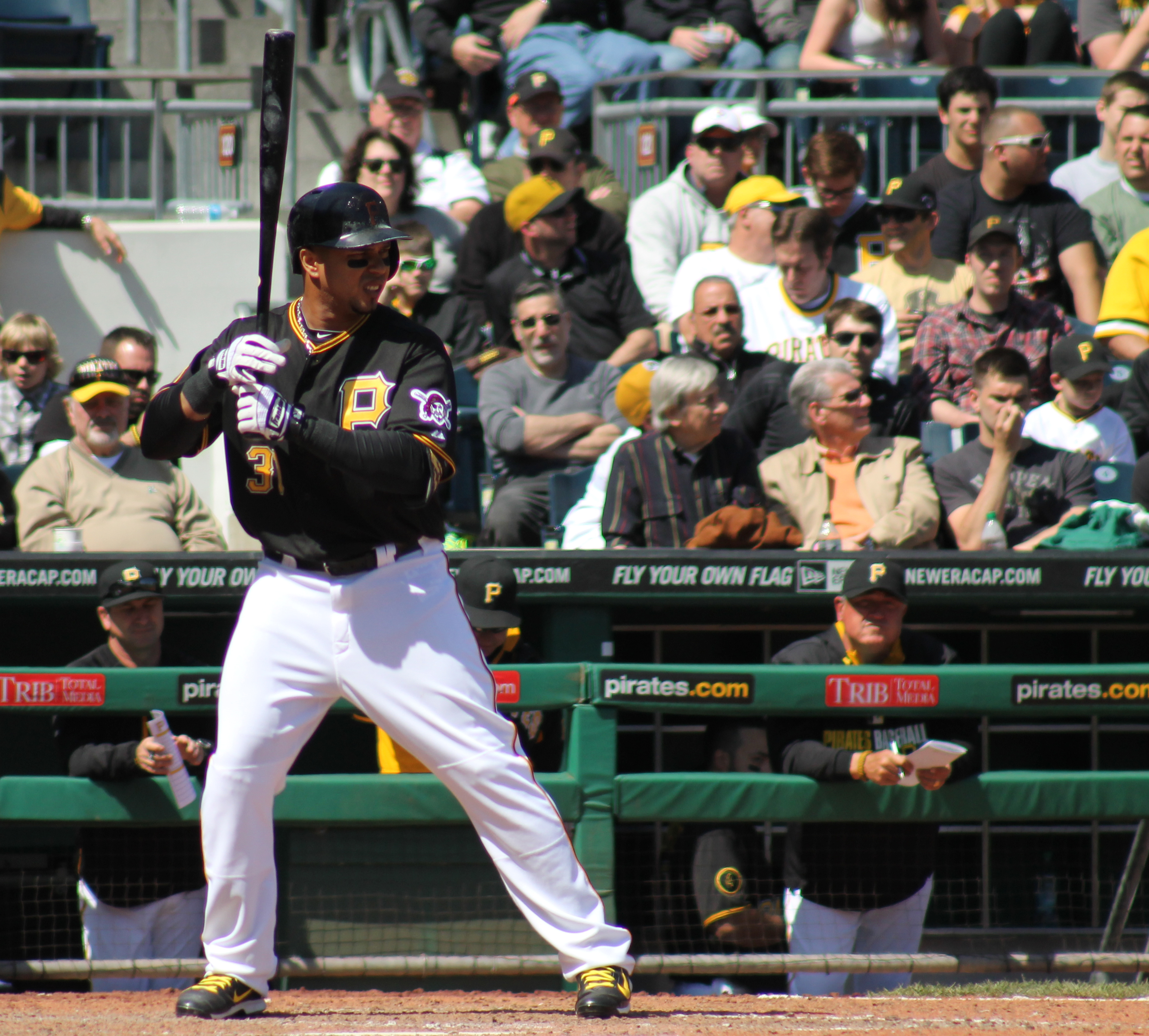 José Tábata batting for the Pittsburgh Pirates